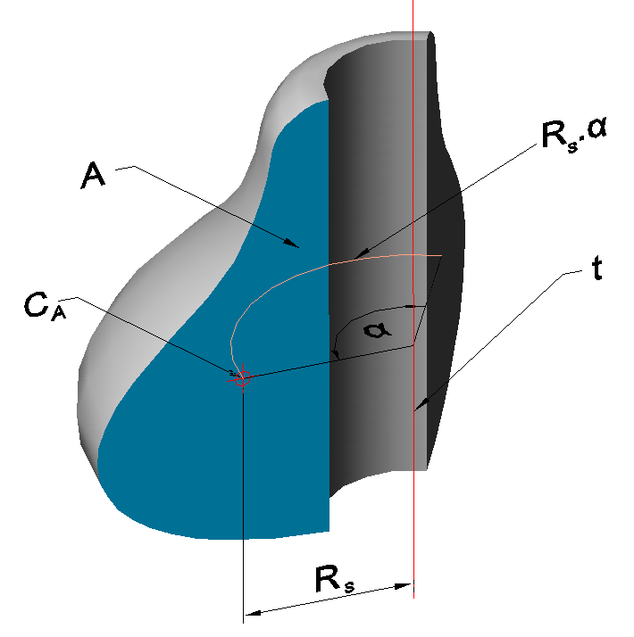 Pappus-Guldin theoreme. 2. Volume of a solid of revolution